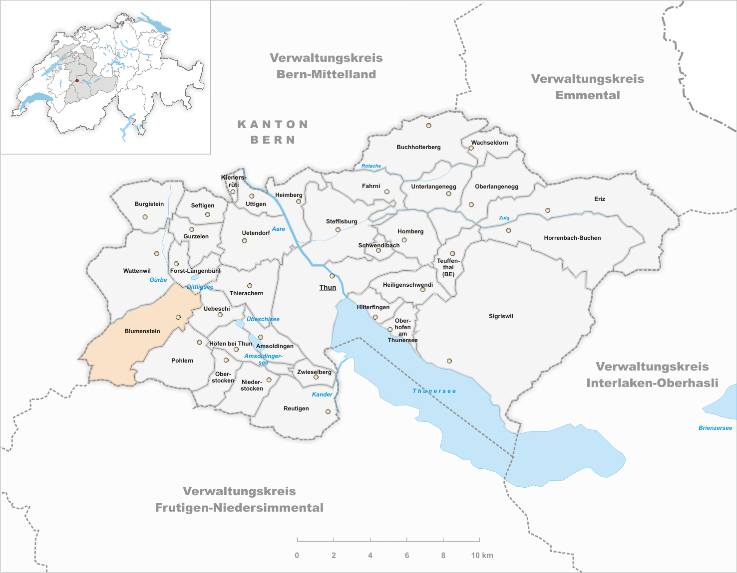 Municipality Blumenstein